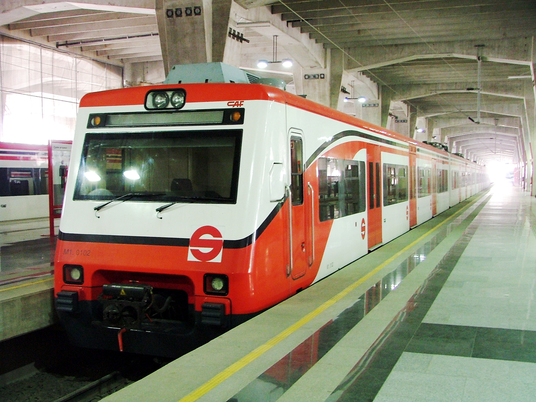 EMU built by CAF inside the Suburban Railway station Buenavista